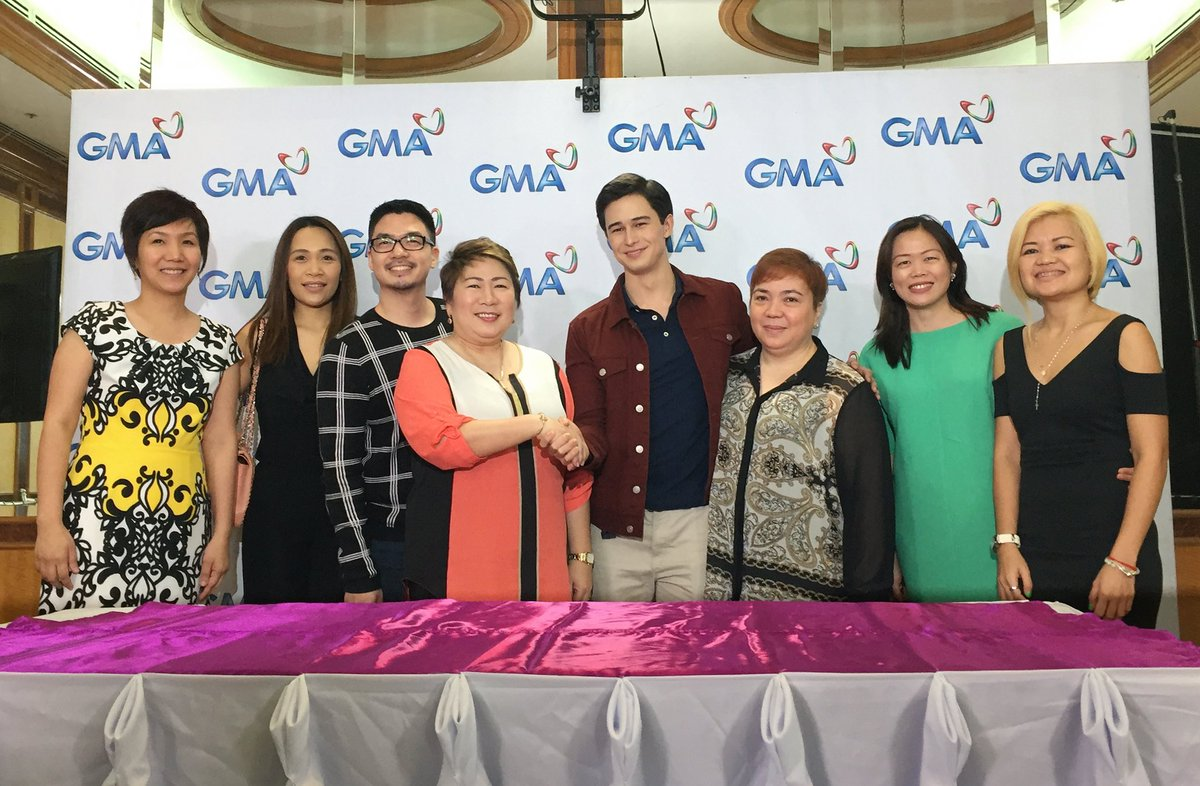 Ivan Dorschner alongside GMA Executives after signing contract with GMA Network